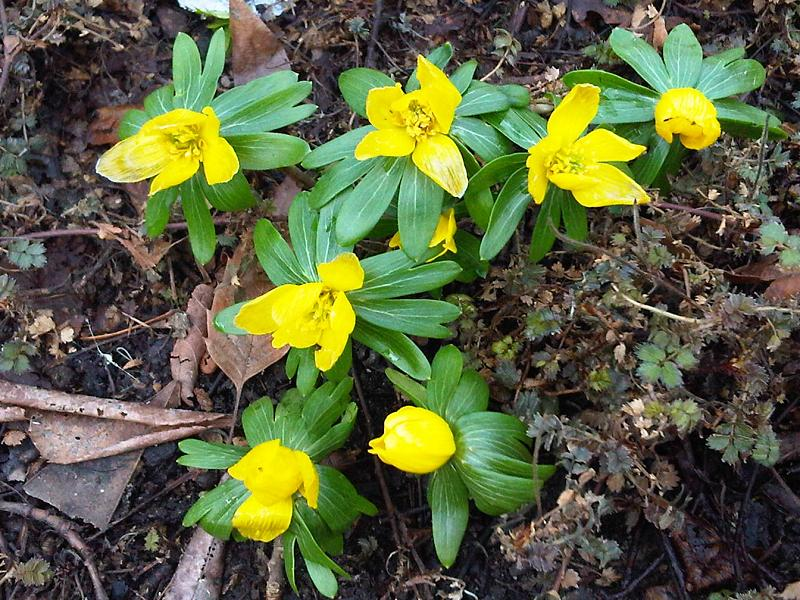 Eranthis hyemalis flowers in Kew Gardens, England.